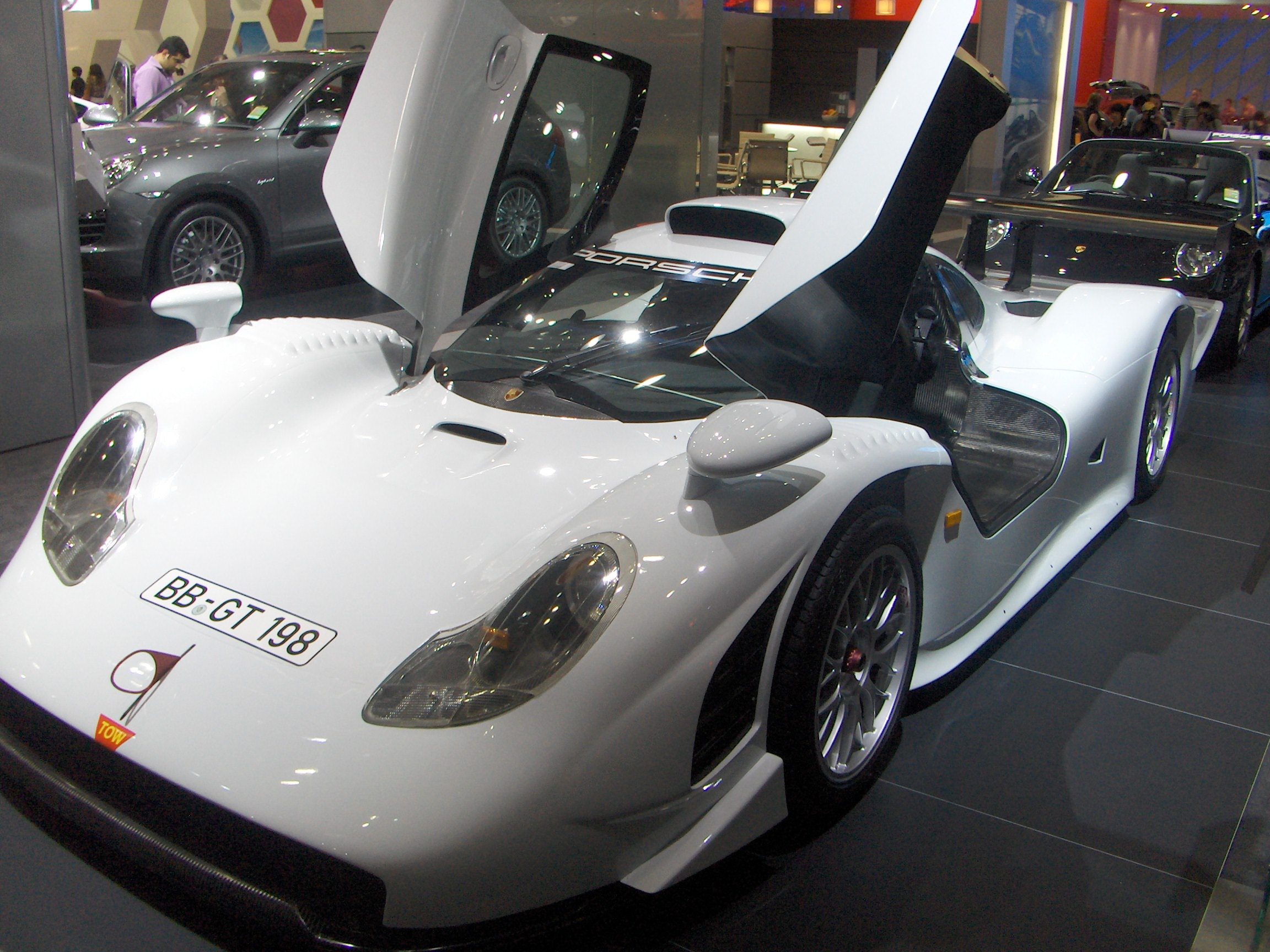 A Porsche 911 GT1 at the 2010 AIMS.